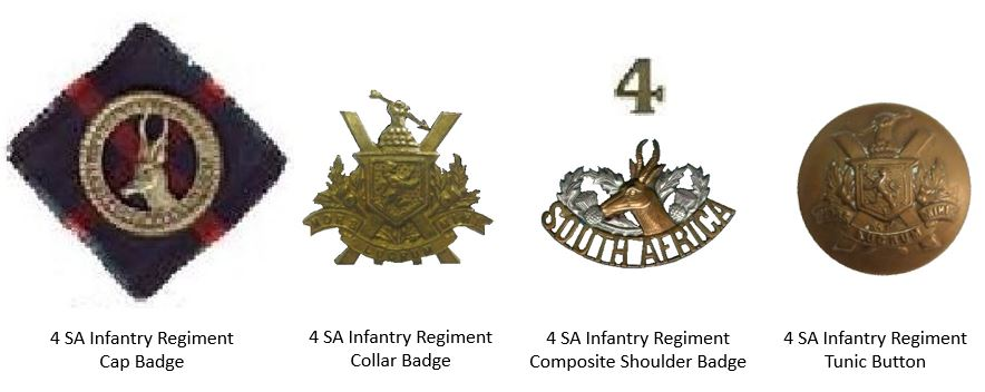 Union Defence Force 4 SA Infantry Regiment Insignia